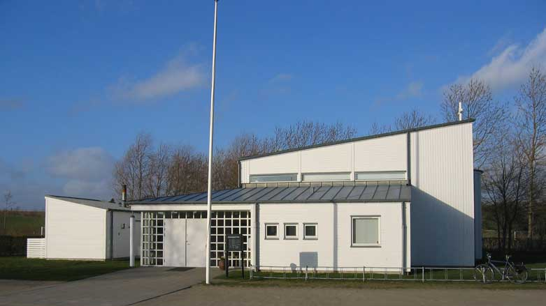 Hvinningdal Church, Balle parish, Hids Herred, Viborg County, Denmark.